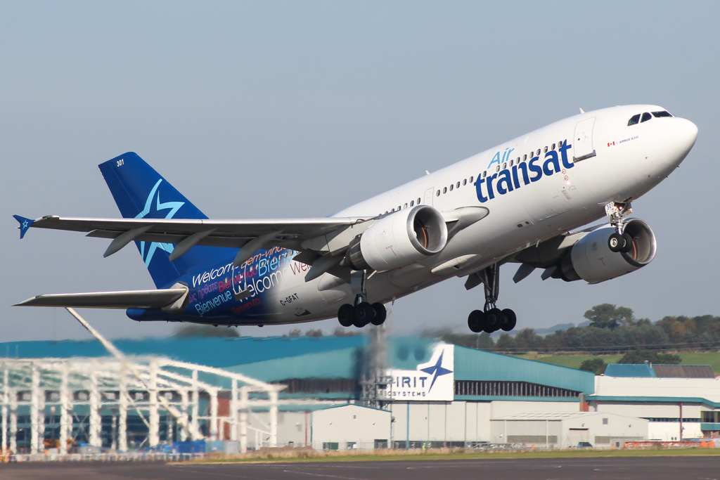 C-GFAT Airbus A310 Air Transat departing Prestwick back to Glasgow after having diverted due to Glasgow being fog-bound